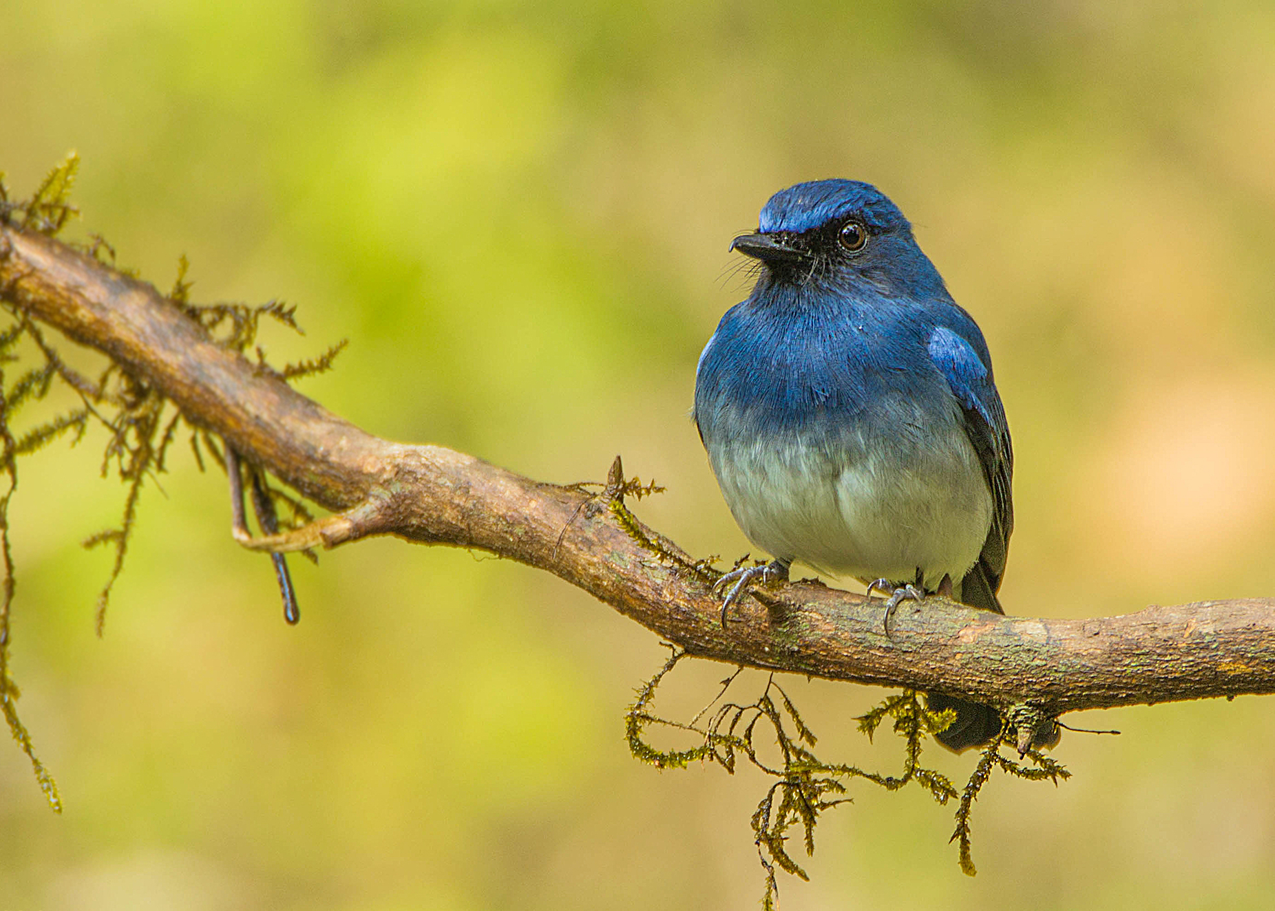 Photo Captured at Ganeshgudi